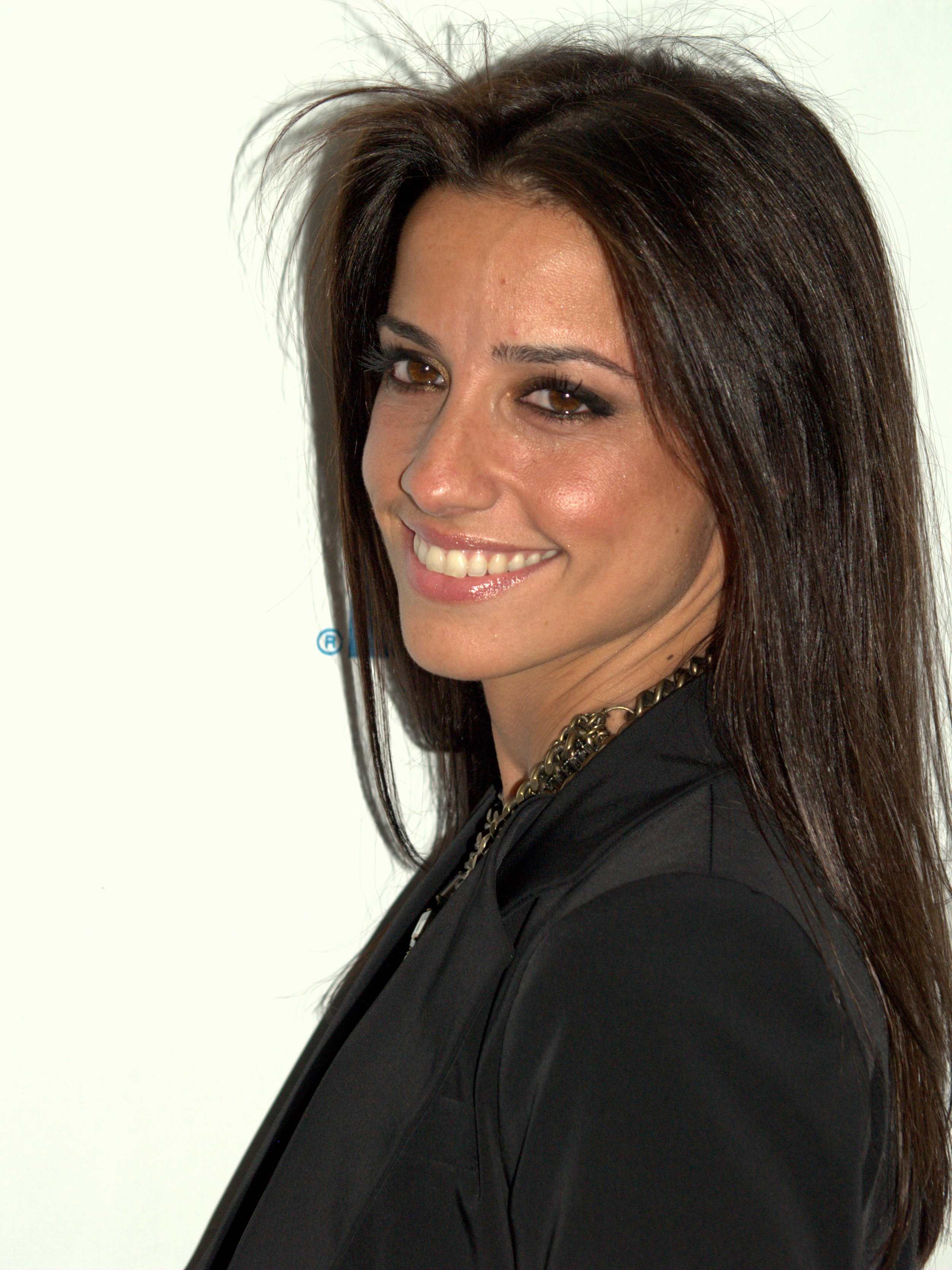 Shoshanna Lonstein Gruss at the 2009 Tribeca Film Festival for the premiere of Burning Down the House, a documentary about famous New York City rock and roll venue CBGB's.